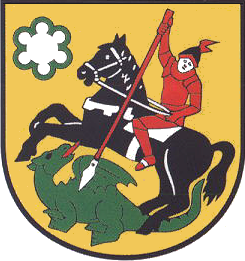 Coat of Arms of Georgenthal